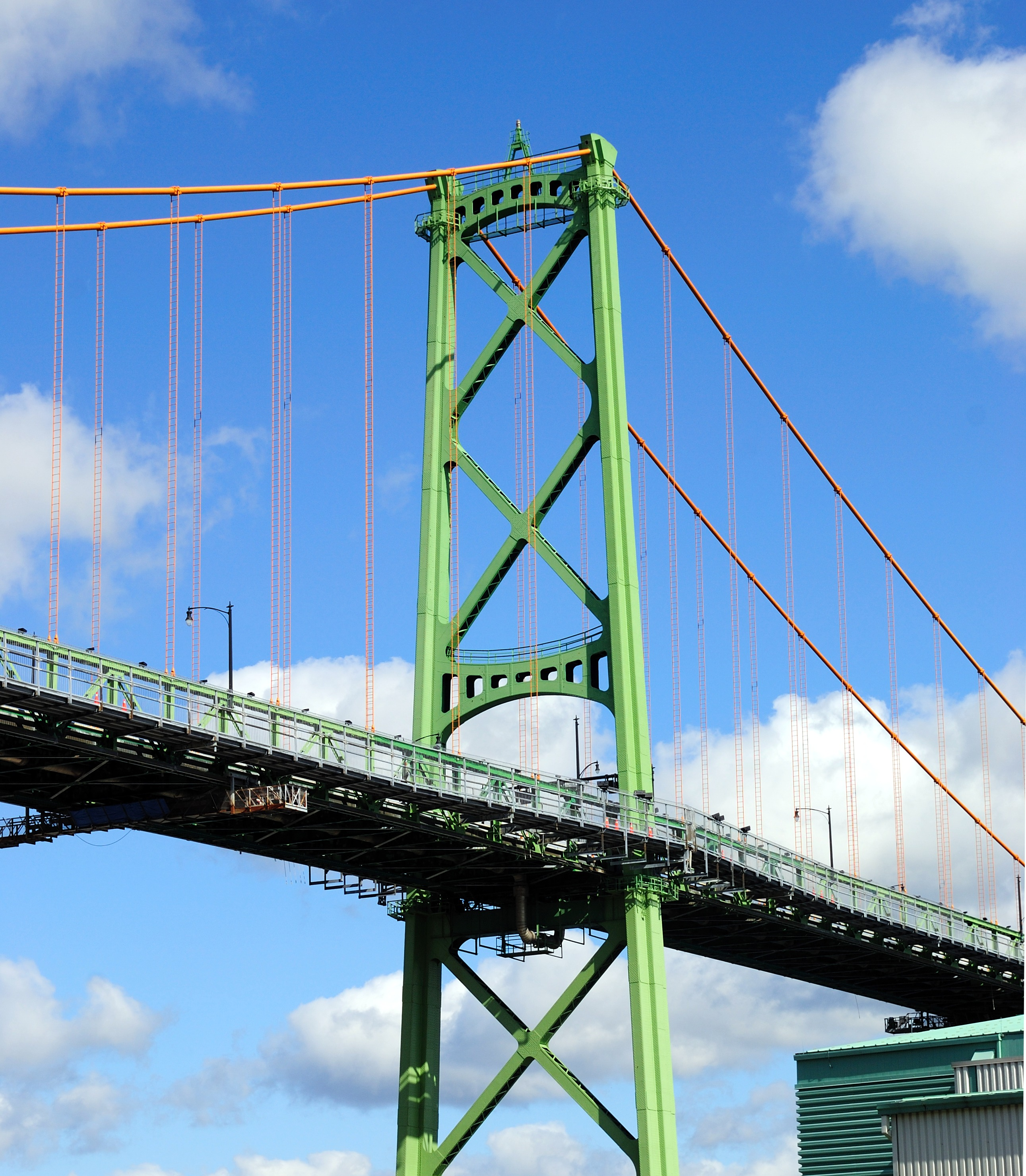 Halifax: pilon of the Angus L. Macdonald Bridge